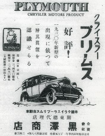 plymouth car sold in japan 1930s ad